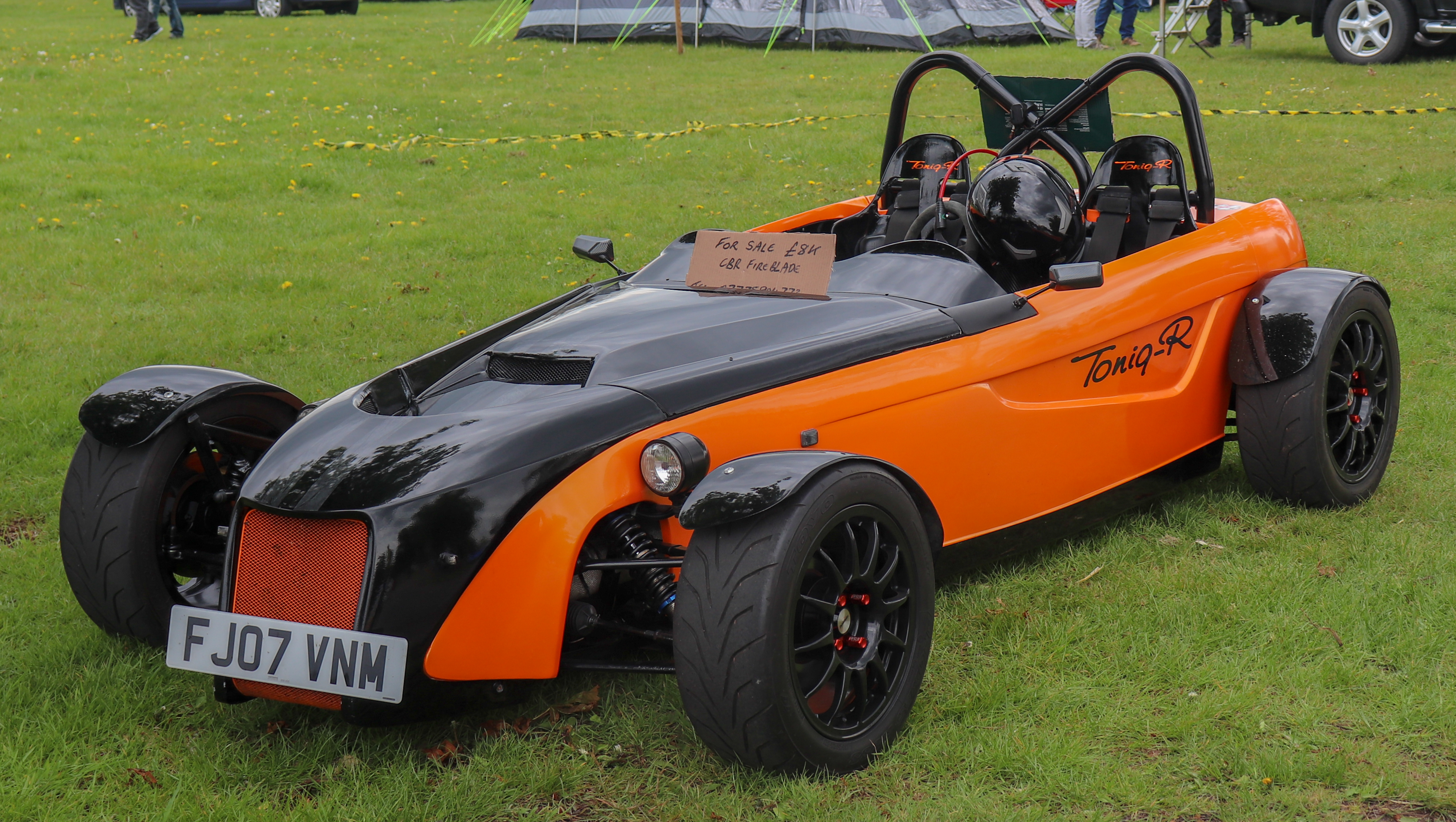 2007 Toniq-R 900cc Front Taken at the Stoneleigh National Kit Car Motor Show 2019